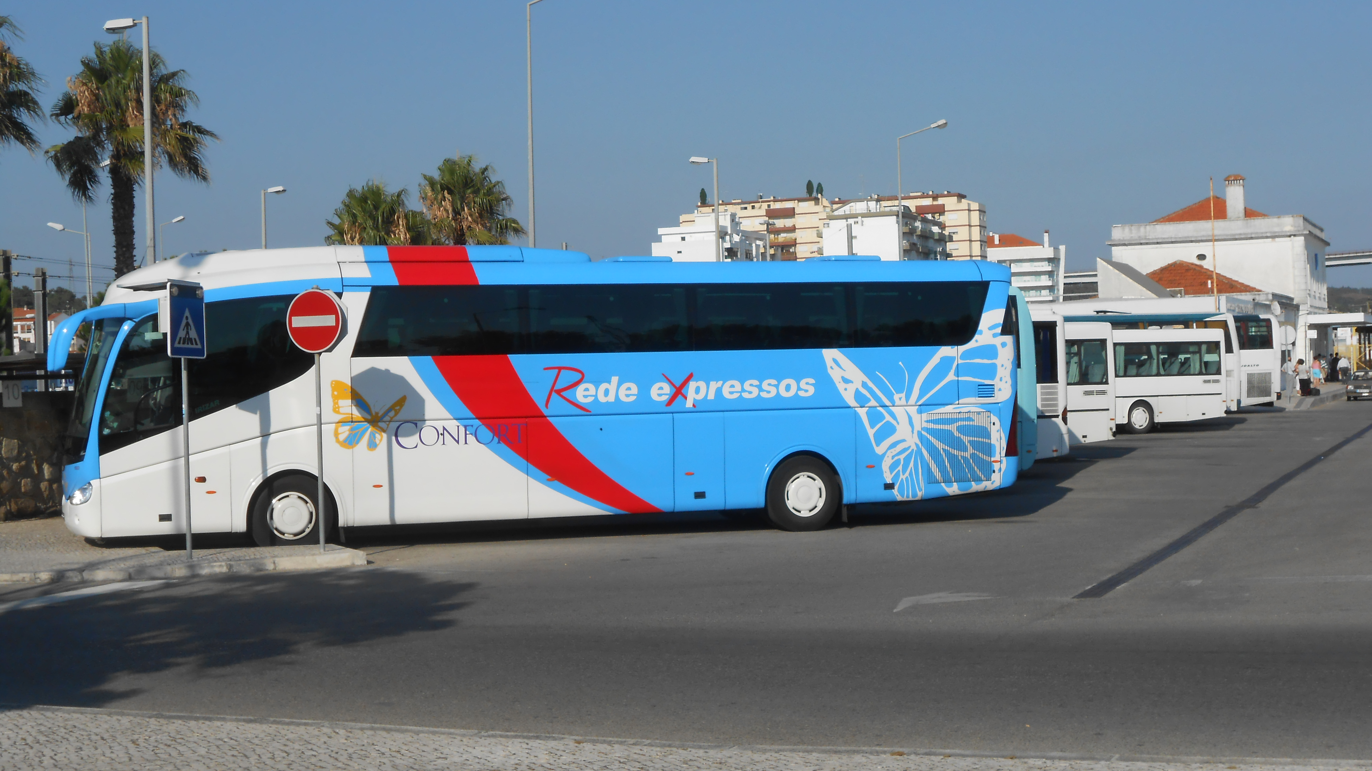 Rede Expresso bus at the Figueira da Foz bus station, Portugal